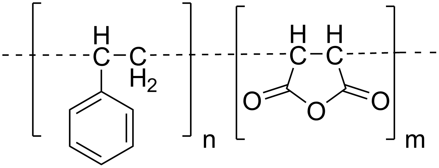 Chemical structure of styrene-maleic anhydride copolymer